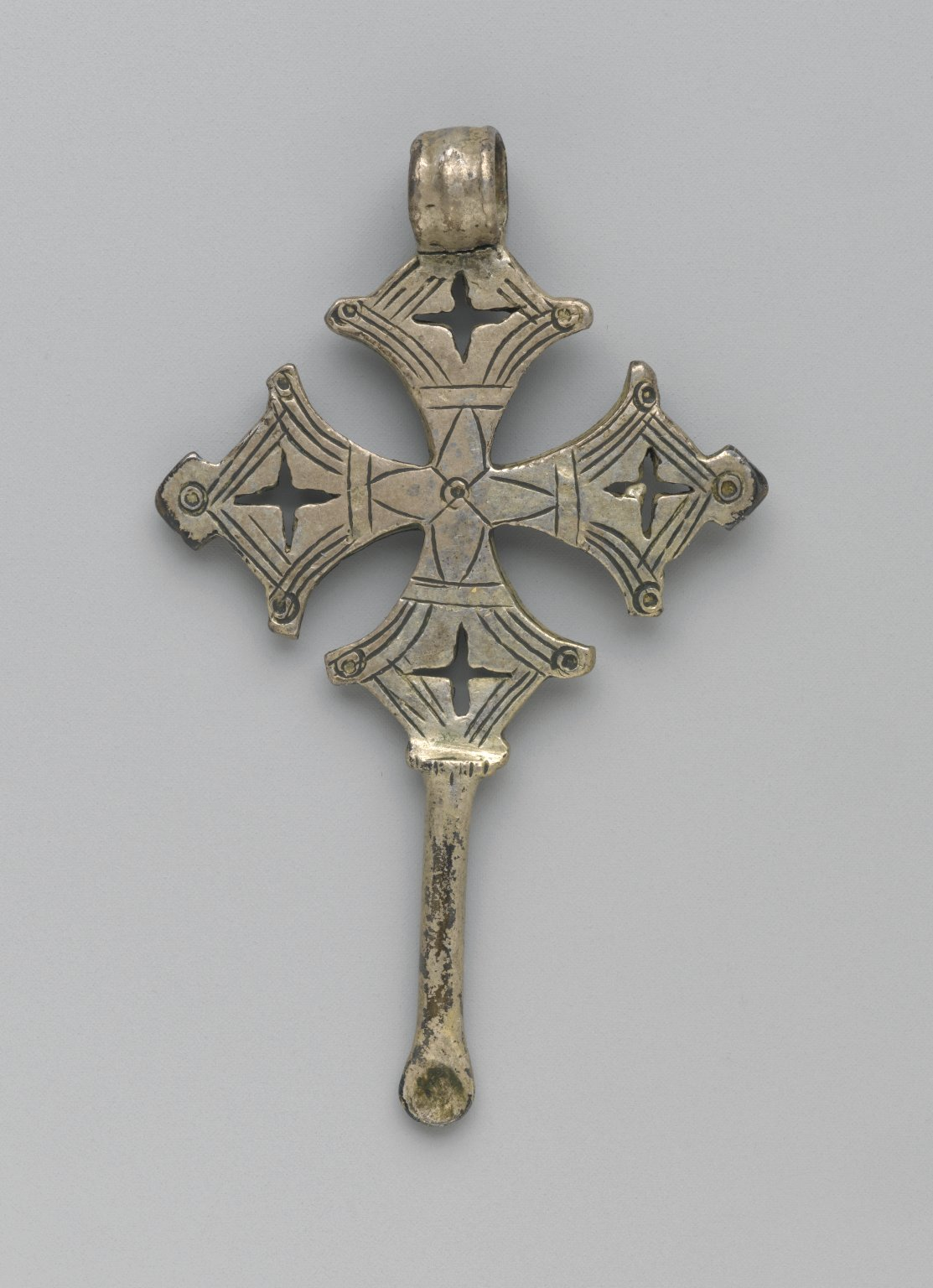 Silver ear cleaner in the form of an equilateral cross with flaring arms and pierced cross forms in the center of each arm. At the top is a ring for suspension. The ear cleaner, in the shape of a very tiny spoon, has been welded to the inferior finial, or arm. The cross has incised decoration on both ides. Condition: Good, some corrosion on the interior bowl part of the spoon.